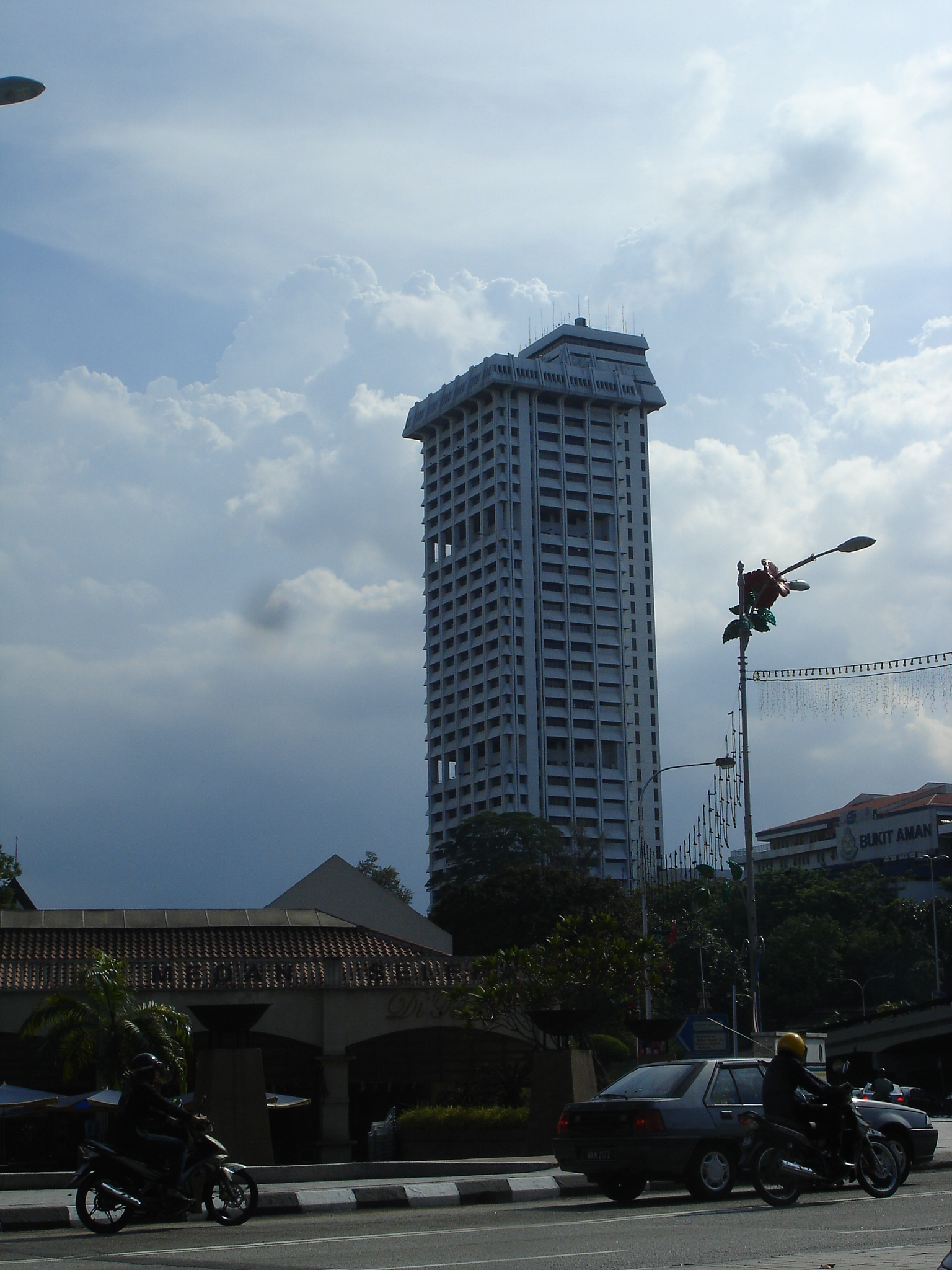 The Royal Malaysian Police headquarters at Bukit Aman in Kuala Lumpur.